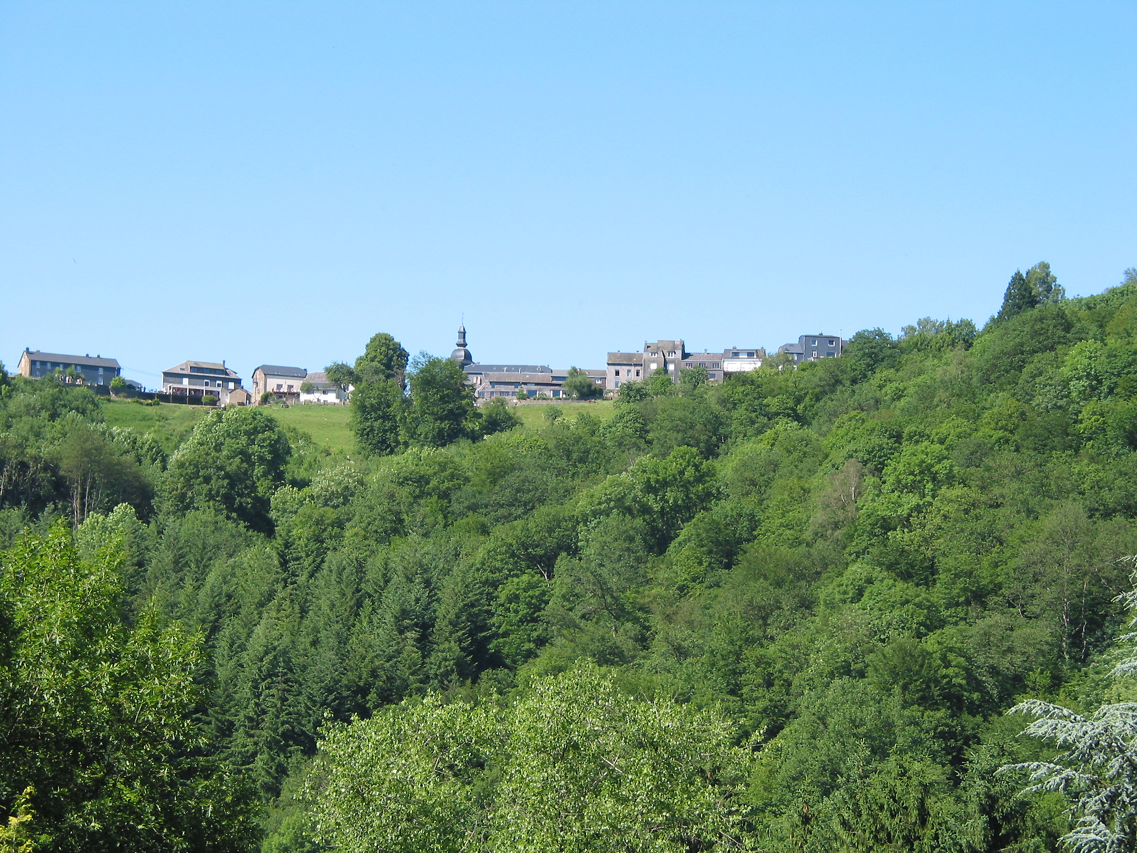 Rochehaut (Belgium), the village seen ftom Frahan.